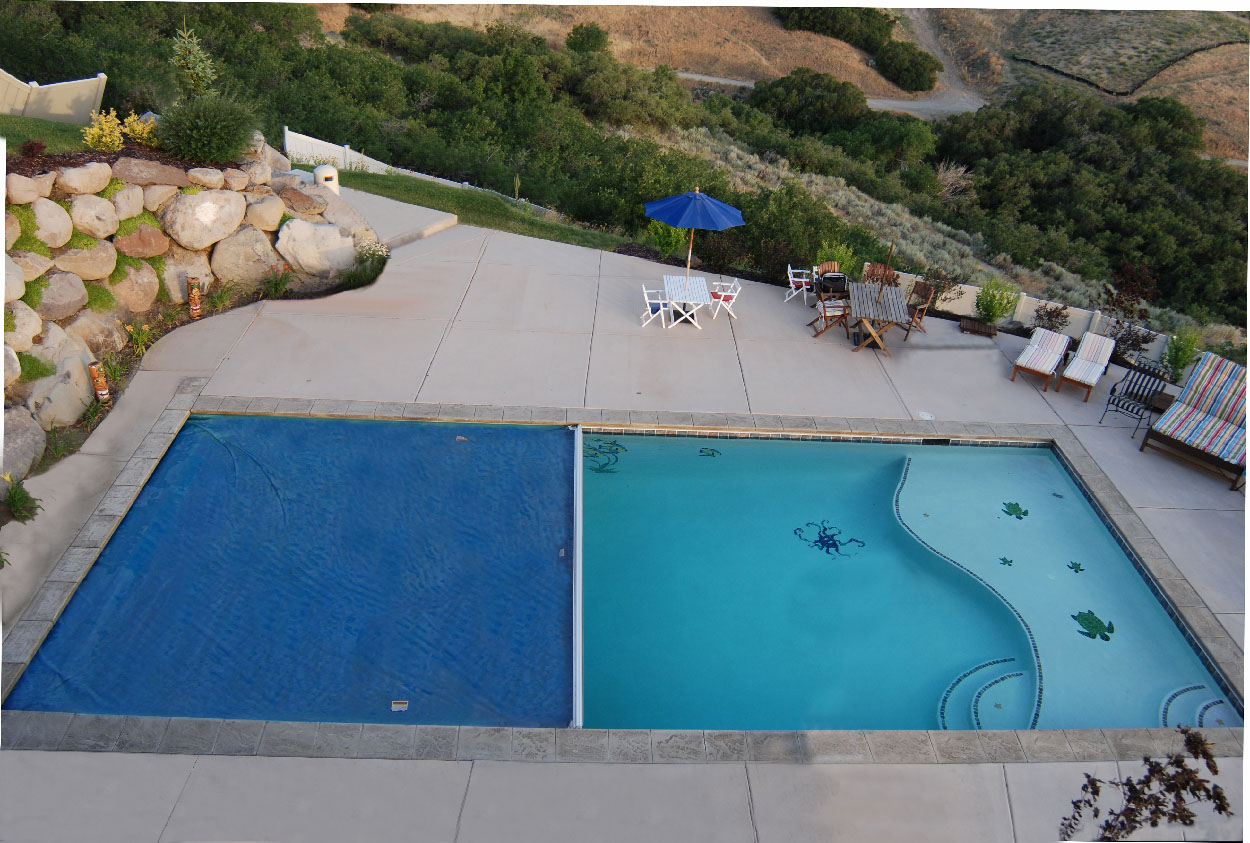 Automatic Pool Cover.